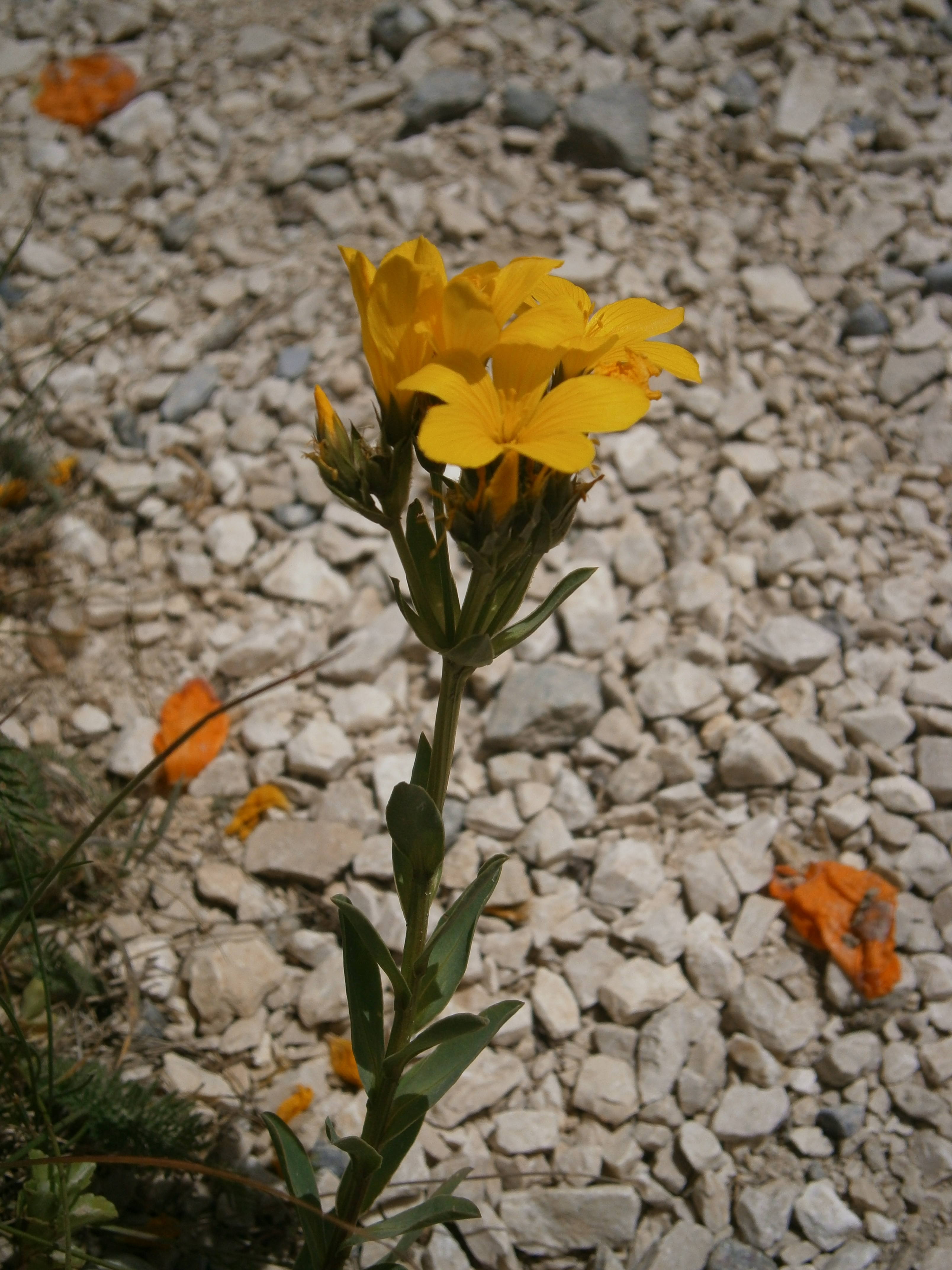 Linum flavum in the Jardin Botanique Alpin du Lautaret